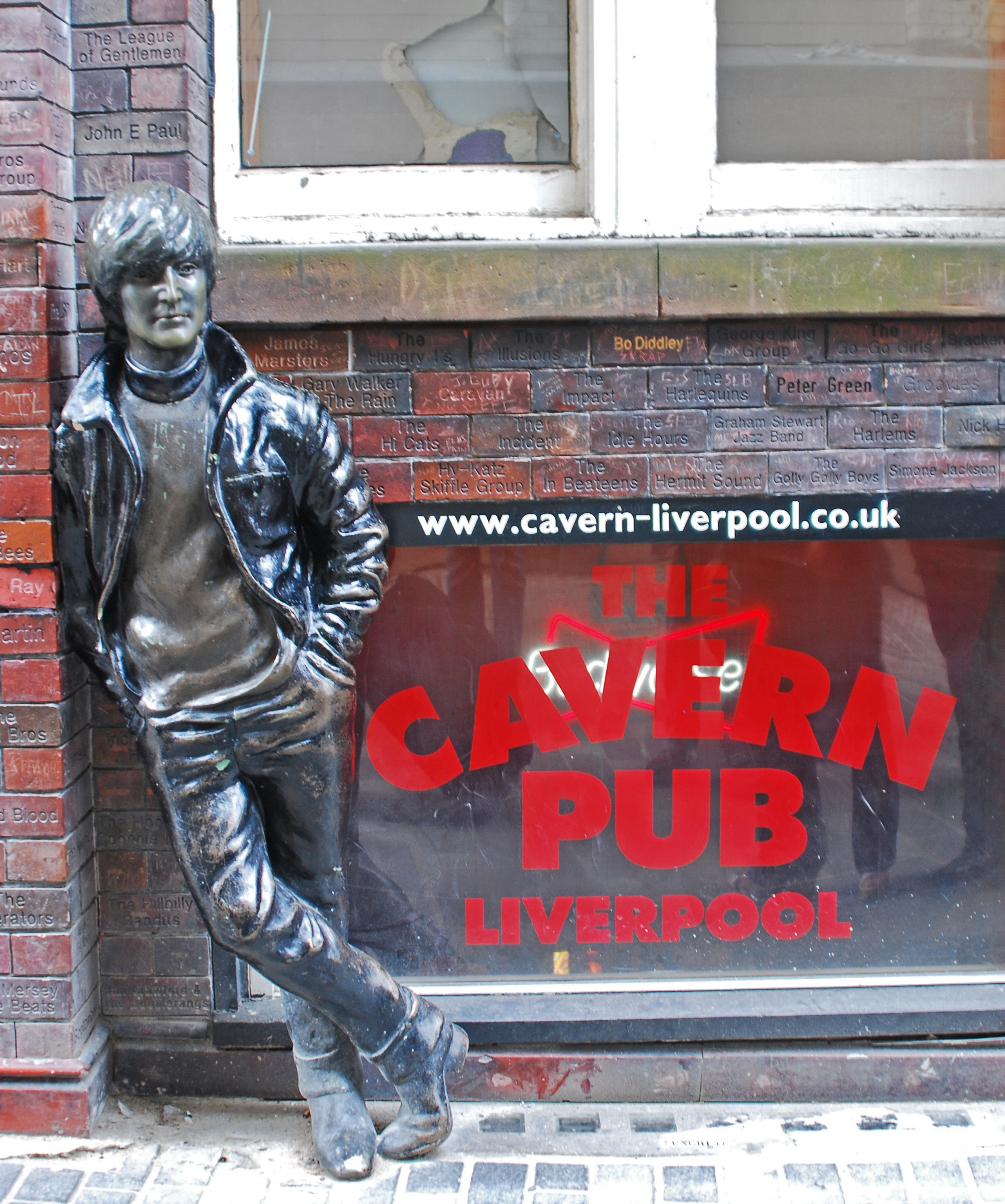 Unveiled on the 16th January 1997. It is a representation of the cover of John's 1975 album, "Rock 'n' Roll"